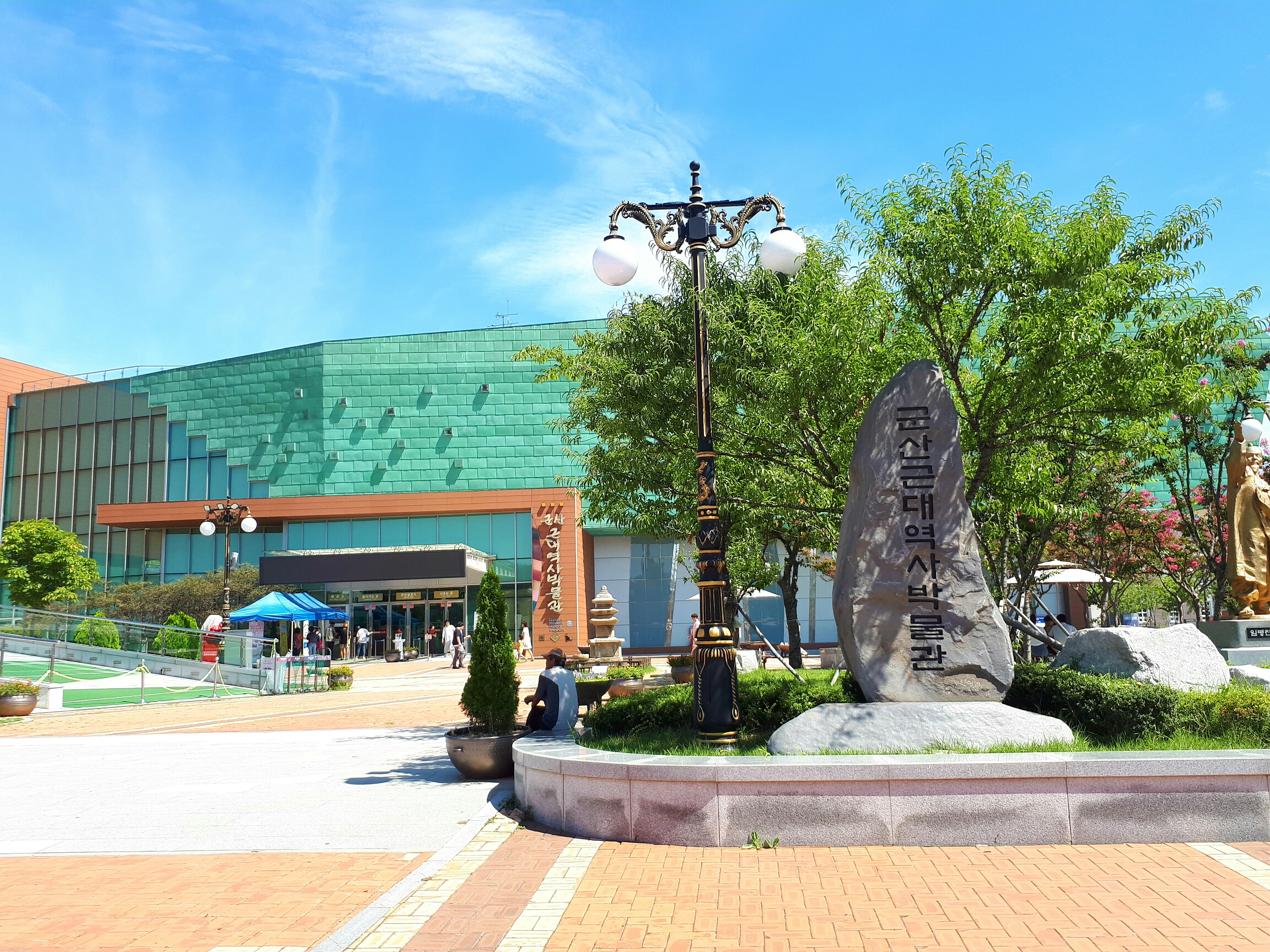 Gunsan Modern History Museum. Landscape of Old Gunsan City and Modern Cultural Heritages are on displayed here.